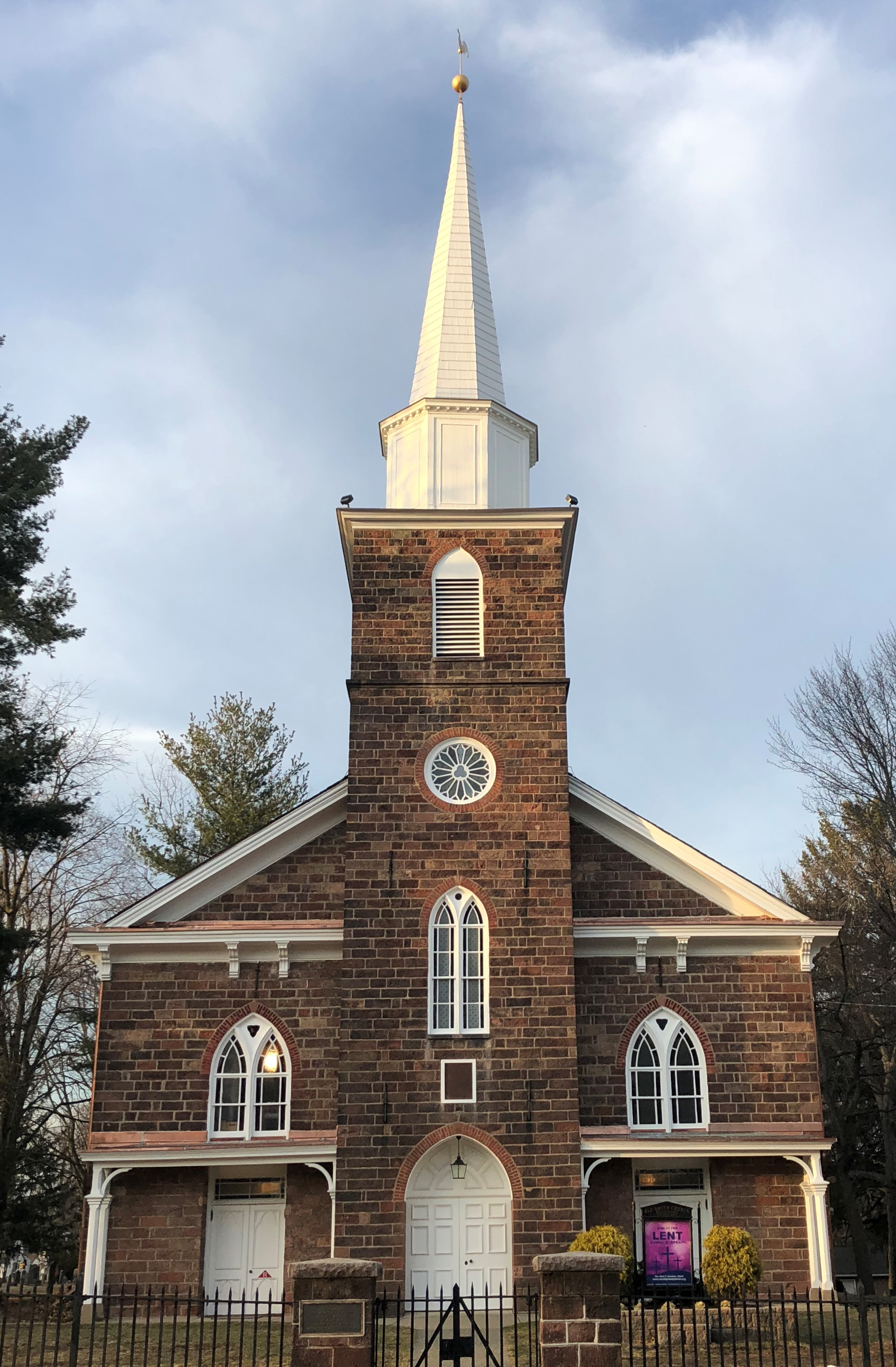 South Church Sanctuary after exterior restoration in late 2017, including a new slate roof and refurbished rosette window. The plexiglas panels were also removed from the windows.